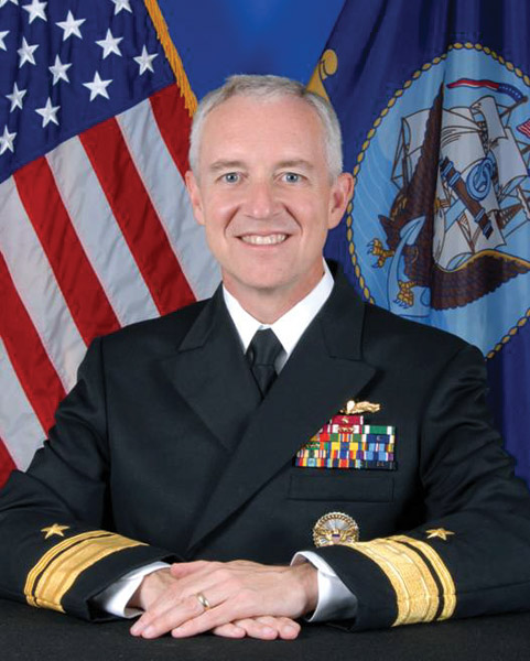 Rear Adm. David W. Titley, during his tenure as Oceanographer and Navigator of the Navy